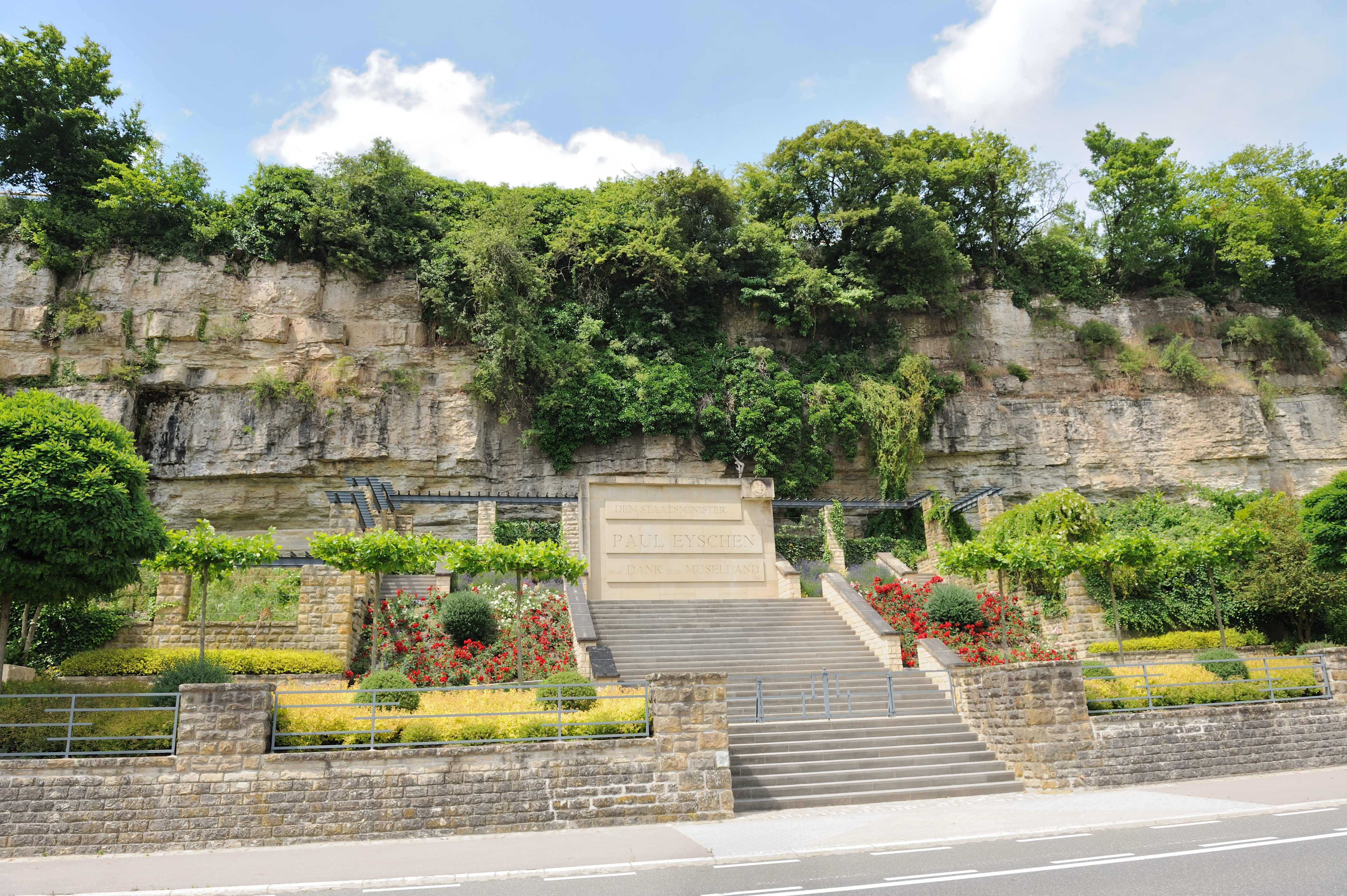 Monument in the Moselle valley at Stadtbredimus. Erected in 1930-1934 to commemorate Paul Eyschen (1841-1915), Prime Minister of Luxembourg.